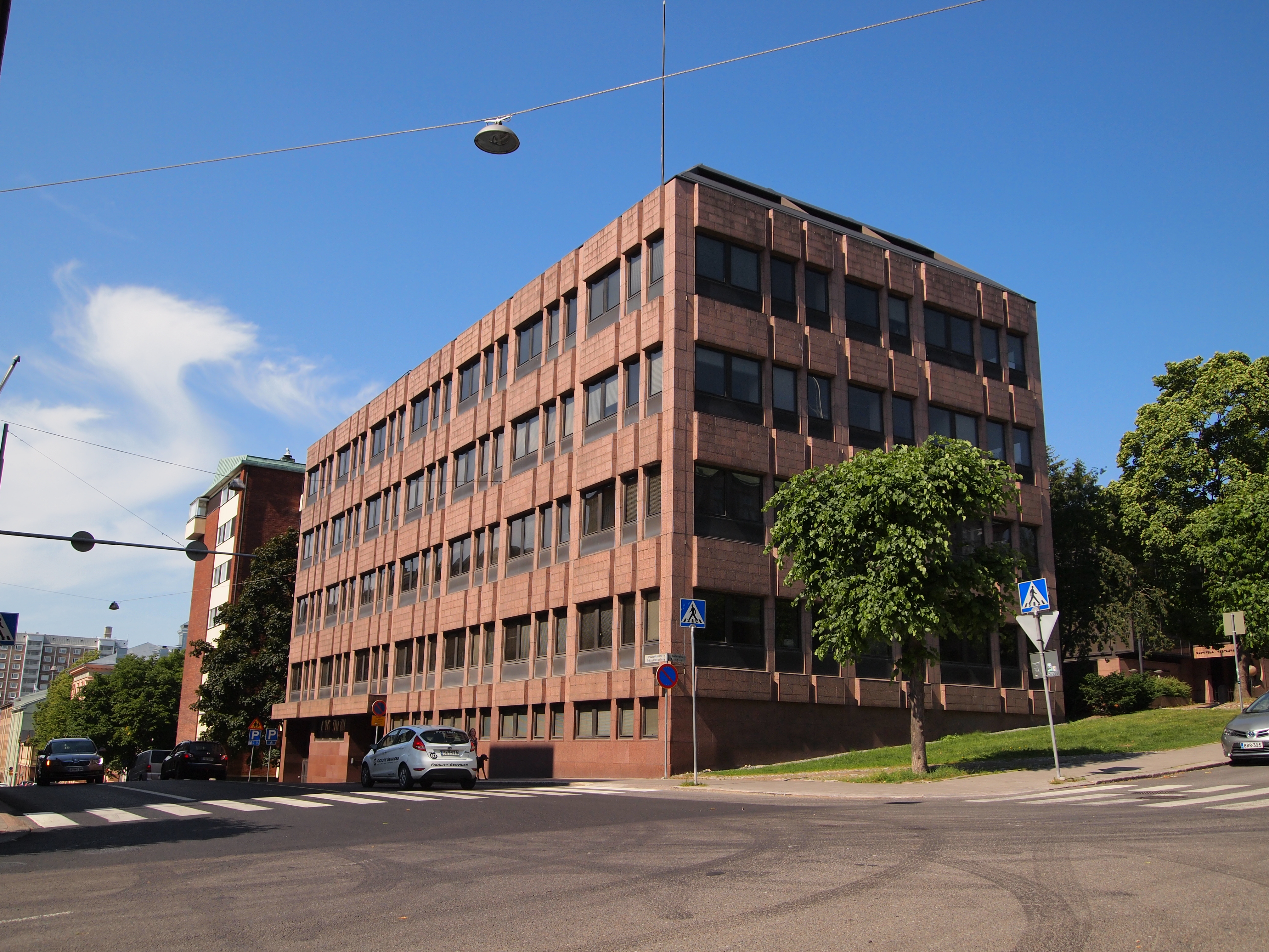 Building between the streets Aurakatu and Puutarhakatu, Turku. This photograph was taken with an Olympus E-PL1